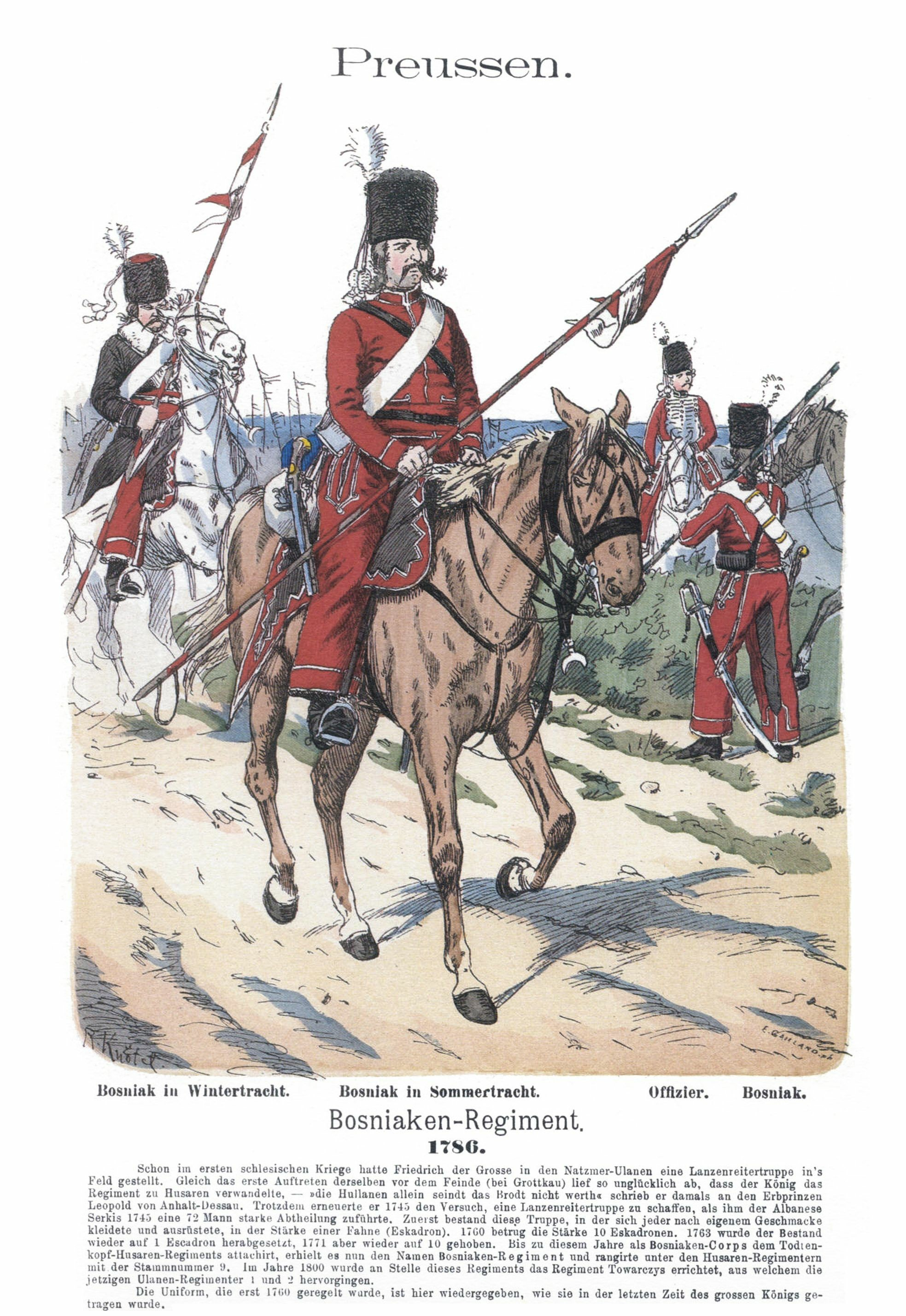 Preußen. Bosniaken-Regiment. 1786